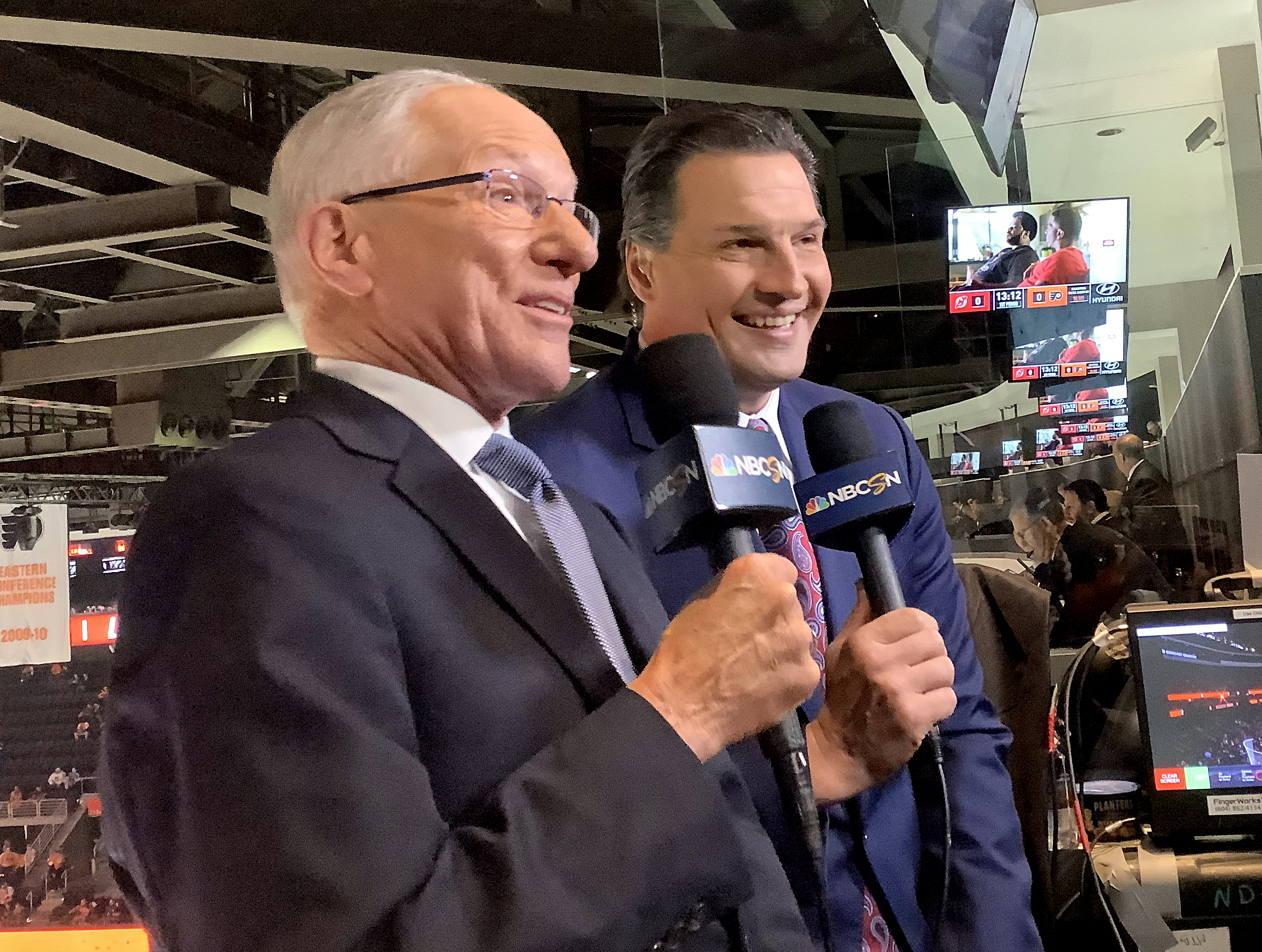 Mike "Doc" Emrick and Ed Olcyk, NHL on NBCSN at Wells Fargo Center, Phildelphia, PA